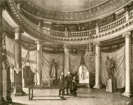 19th-century painting representing Alexander I's visit to the Russian National Library on January 2, 1812.